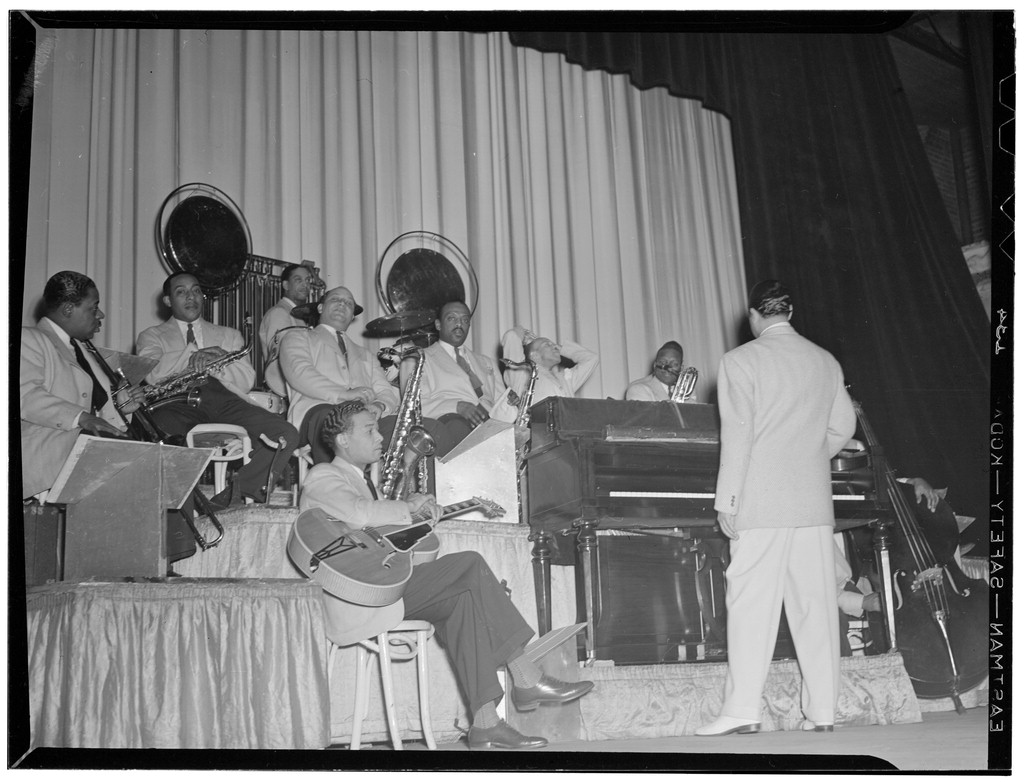 from left to right:Joe Nanton, Johnny Hodges, Sonny Greer, Barney Bigard (up), Fred Guy (down), Ben Webster, Otto Hardwick, Harry Carney, Duke Ellington (back), Junior Raglin or Jimmie Blanton ? probably between 1940 and 1942 (Photograph by William P. Gottlieb)